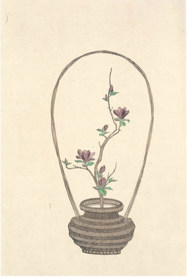 Coloured diagram #61 of shōka works by the 40th headmaster Ikenobō Senjō, from the Sōka Hyakki.